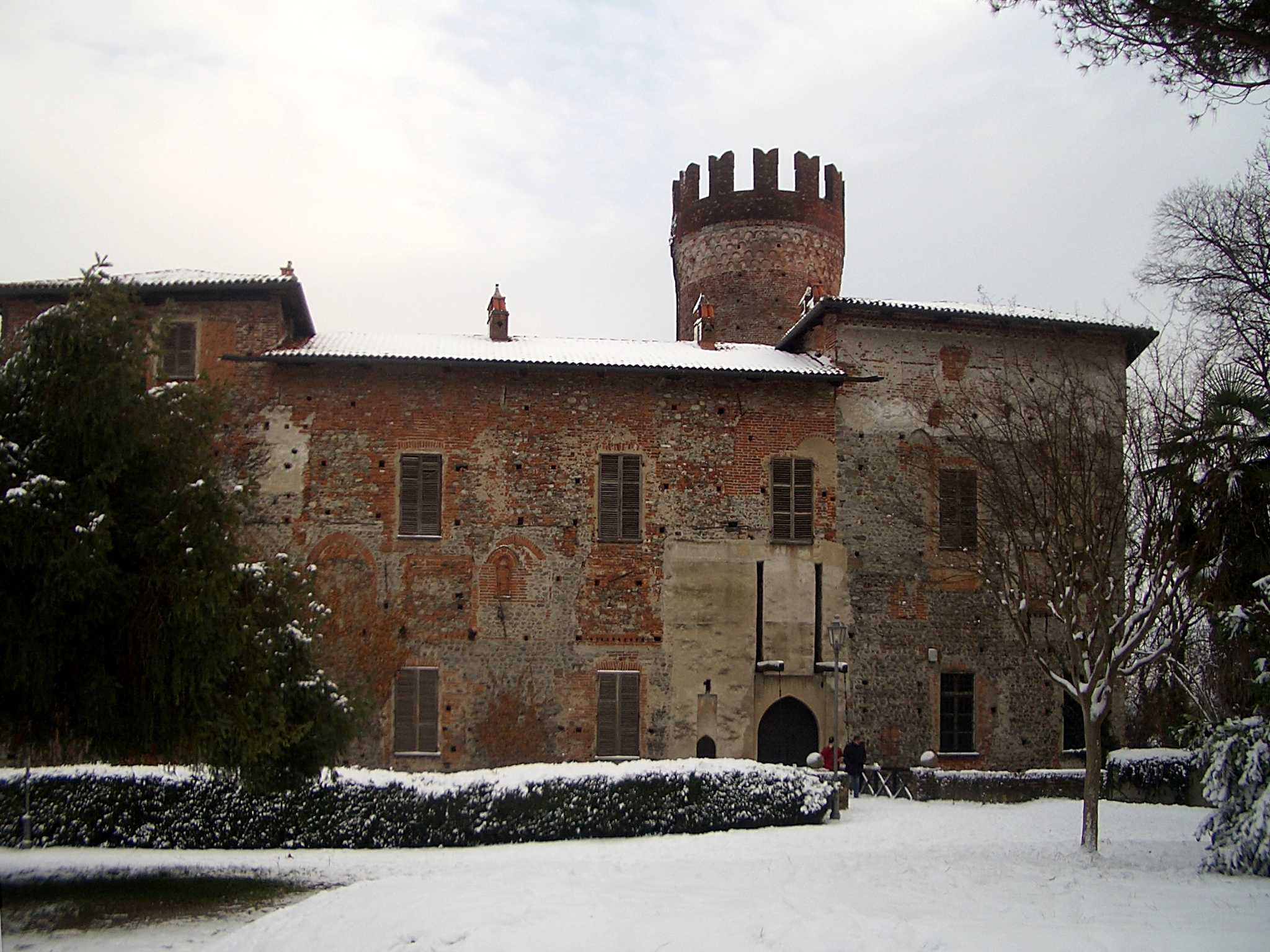 Castello Malgrà, Rivarolo Canavese, Province of Turin, Italy A winter view of the castle